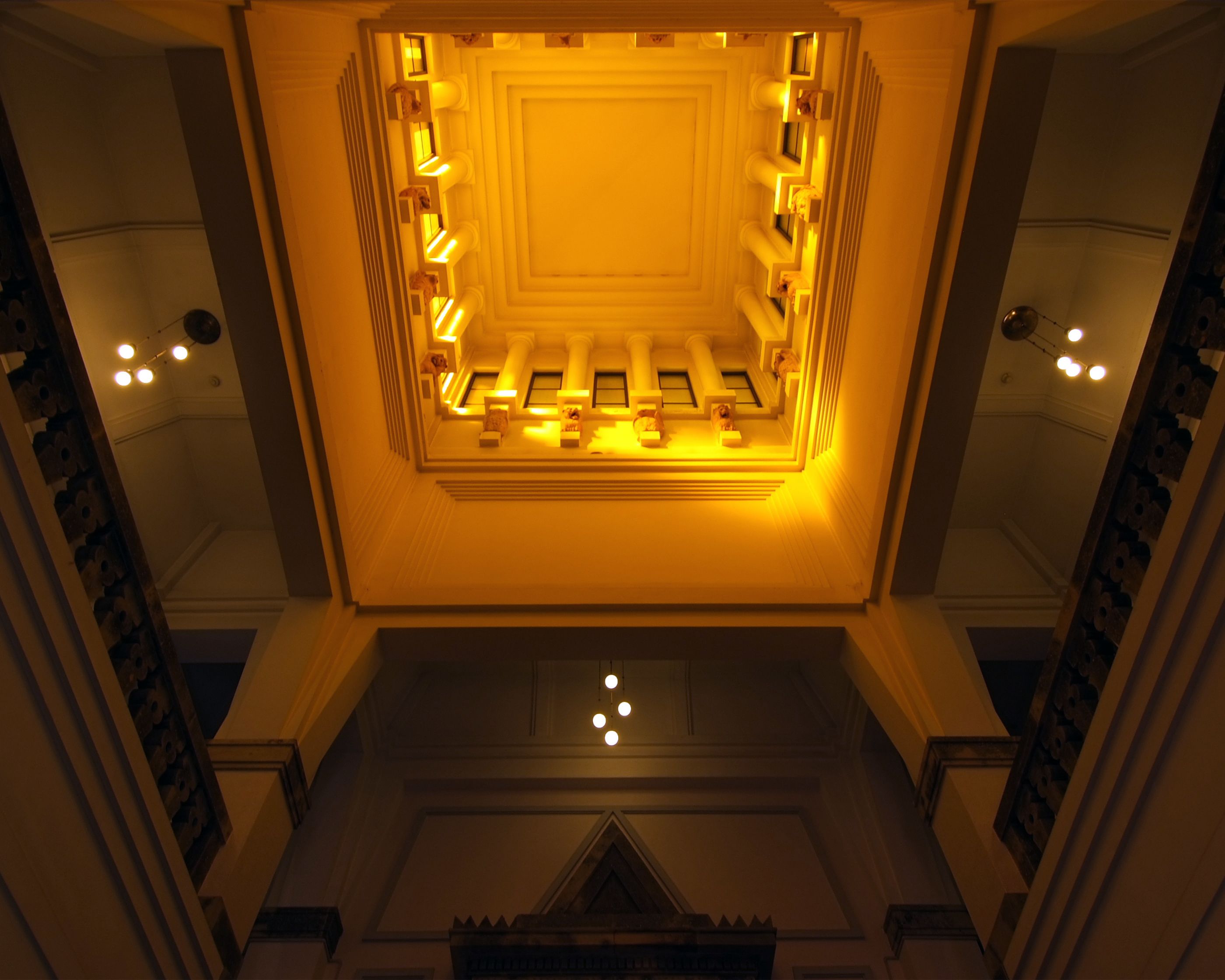 Interior of Okurayama Memorial Hall, at Okurayama Yokohama Japan.